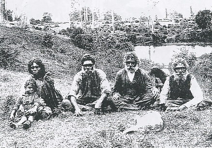 Kombumerri Nerang River Aboriginal people